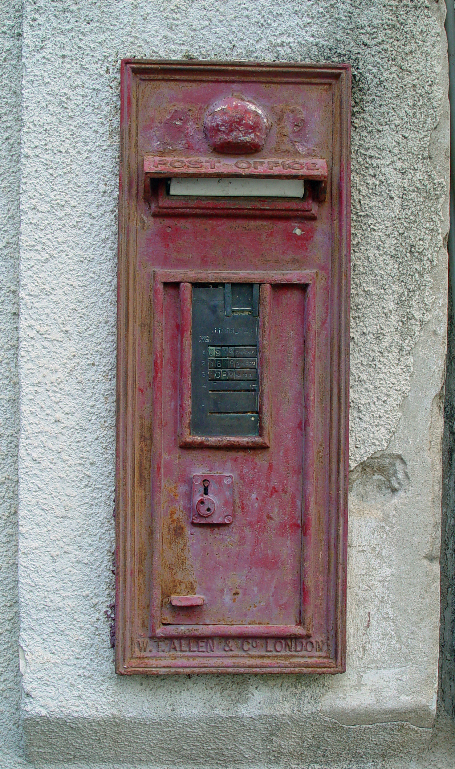 George V wall-mounted post box at the Hod HaSharon (Israel) former post office, made by W.T. Allen & Co. Ltd. It was installed by the British Mandate authorities before 1936, and taken over by the Israeli Post Office in 1948 which ground off the "GR" Royal cypher and changed the collection plate. Traces of cypher are still visible: GR stands for Georgius Rex (King George V).